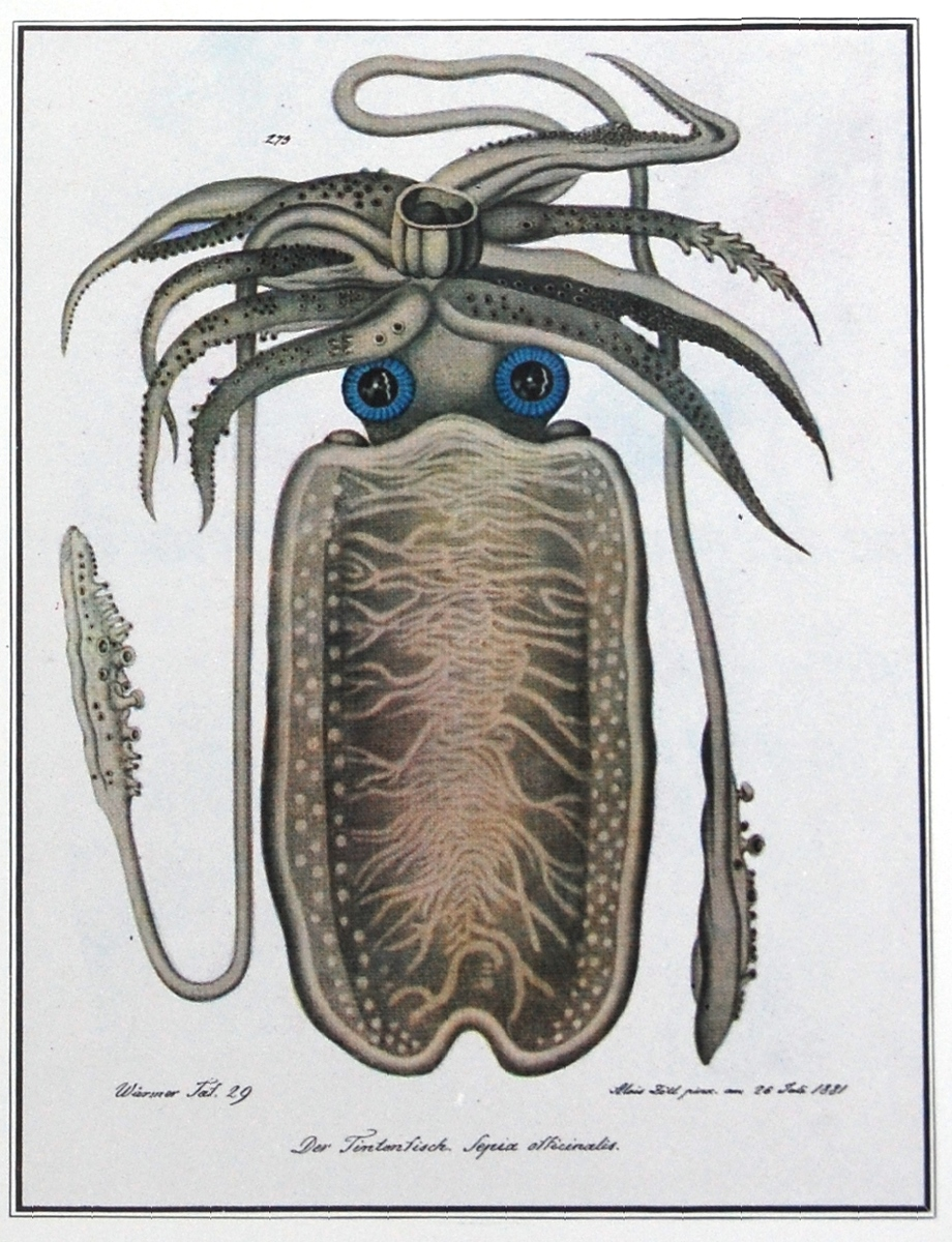 from the "Bestiarium"